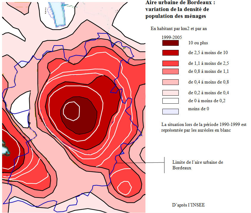 Evolution of the densities in the urban area of Bordeaux between 1990 and 2005